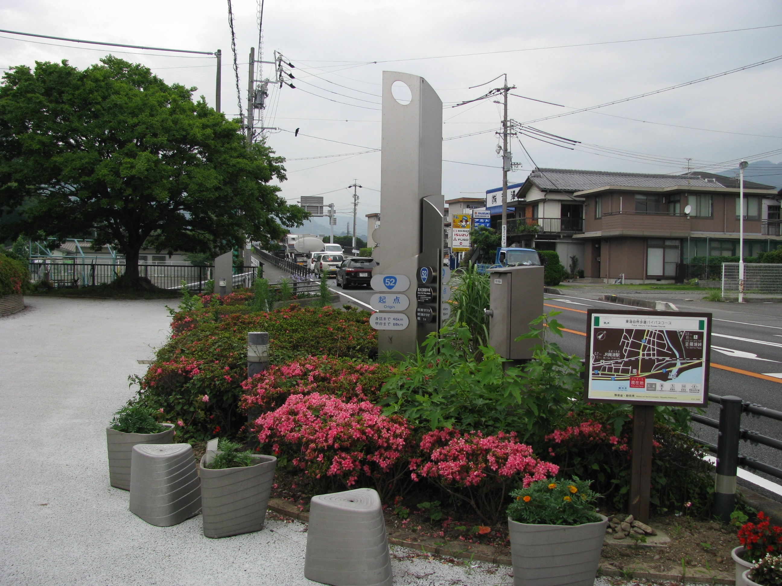 The Kilometre Zero of Japan National Route 52. This place is Shimizu, Shizuoka, Shizuoka, Japan.